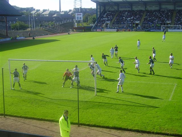 Dundee F.C. (dark blue) vs St. Johnstone F.C. (white), Scottish First Division match.